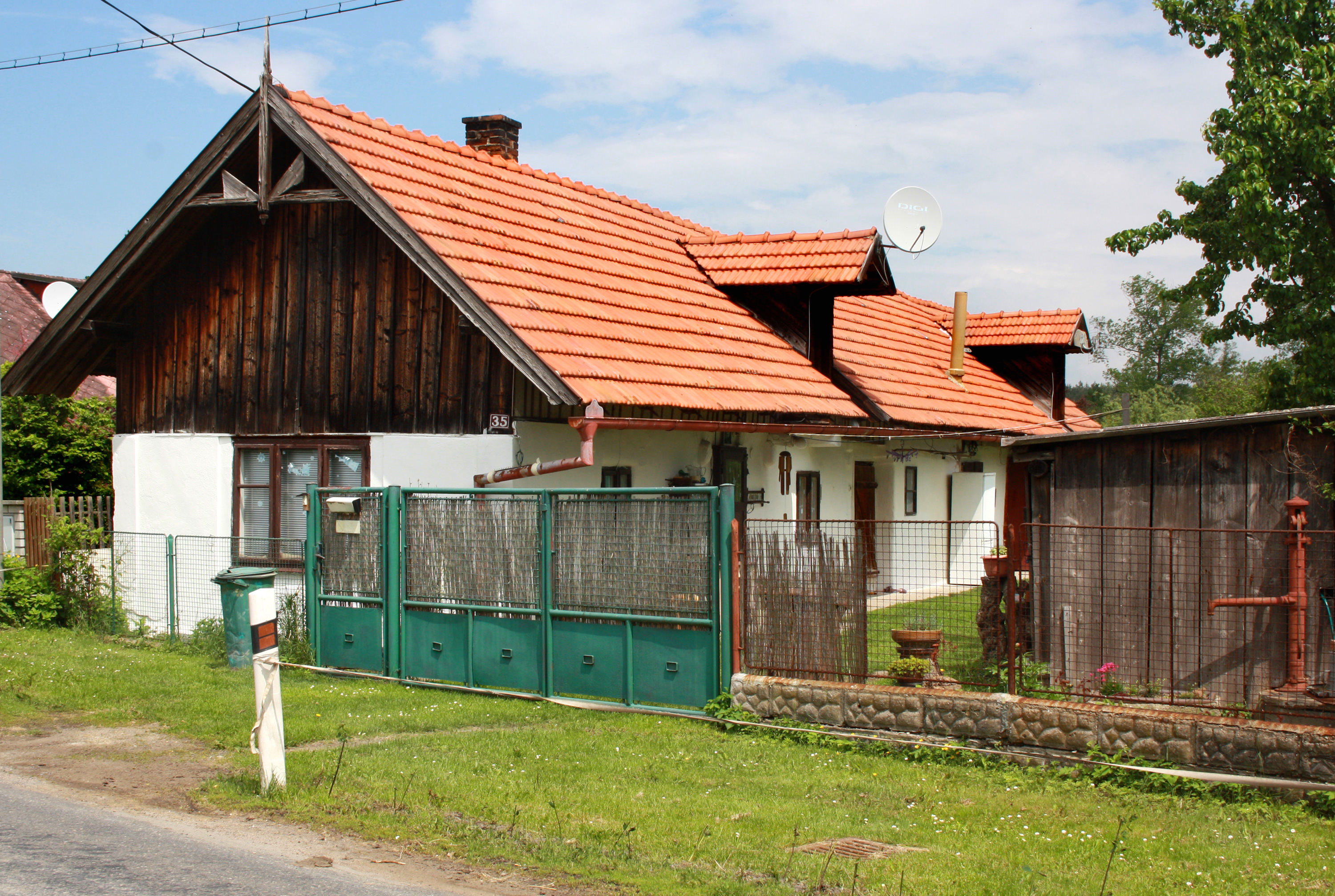 Hasina, part of Rožďalovice town, Czech Republic